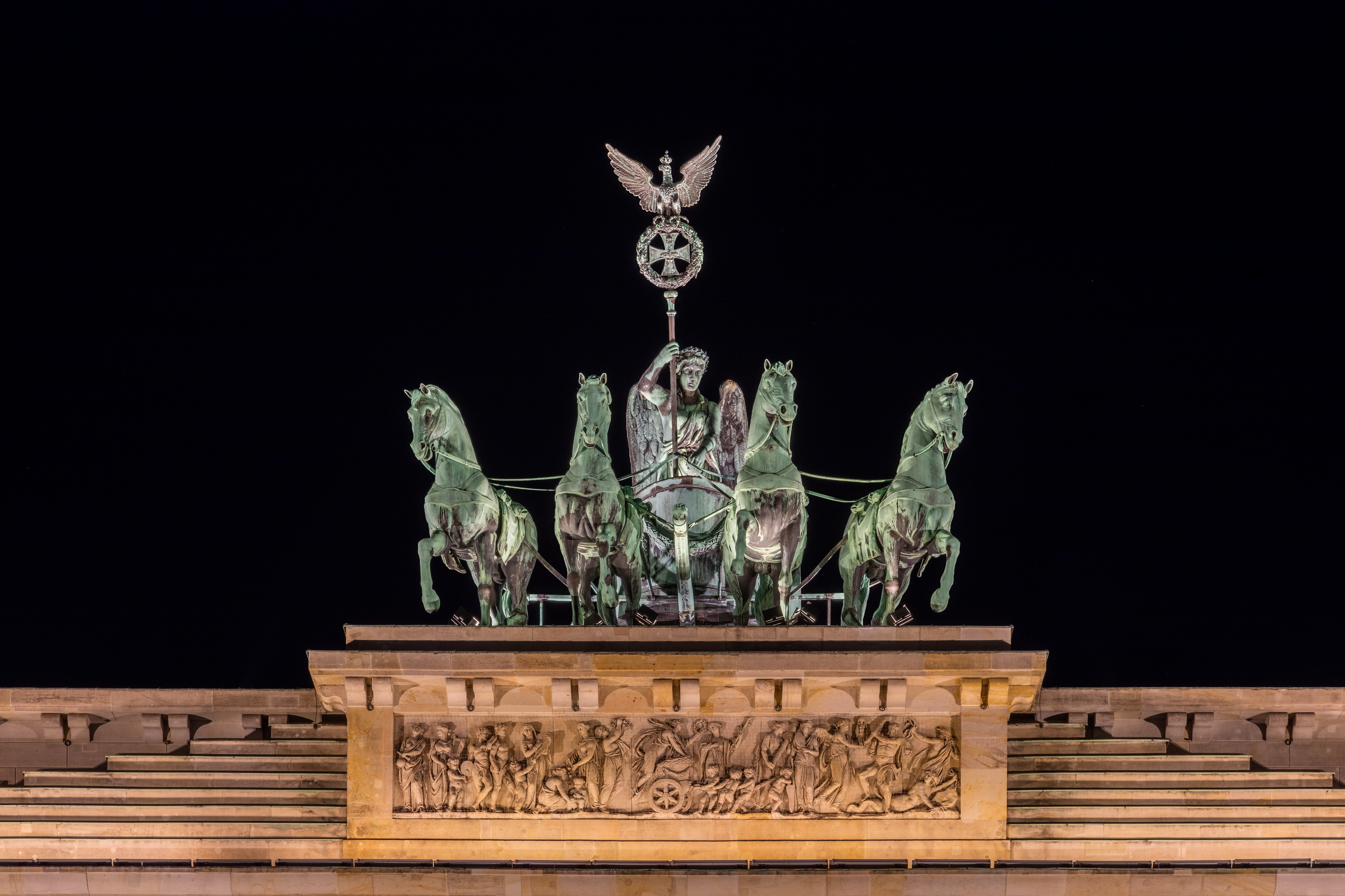 Quadriga of the Brandenburg Gate, Berlin, Germany. The gate was commissioned by King Frederick William II of Prussia as a sign of peace and built between 1788 to 1791. It suffered considerable damage in World War II and during the post-war Partition of Germany, the gate was isolated and inaccessible immediately next to the Berlin Wall. The area around the gate was featured most prominently in the media coverage of the tearing down of the wall in 1989, and the subsequent German reunification in 1990. After the 1806 Prussian defeat at the Battle of Jena-Auerstedt, Napoleon was the first to use the Brandenburg Gate for a triumphal procession and took its Quadriga to Paris. After Napoleon's defeat in 1814 and the Prussian occupation of Paris the Quadriga was restored to Berlin and redesigned as a Prussian triumphal arch. The gate was restored from 2000 to 2002 to its current appearance.